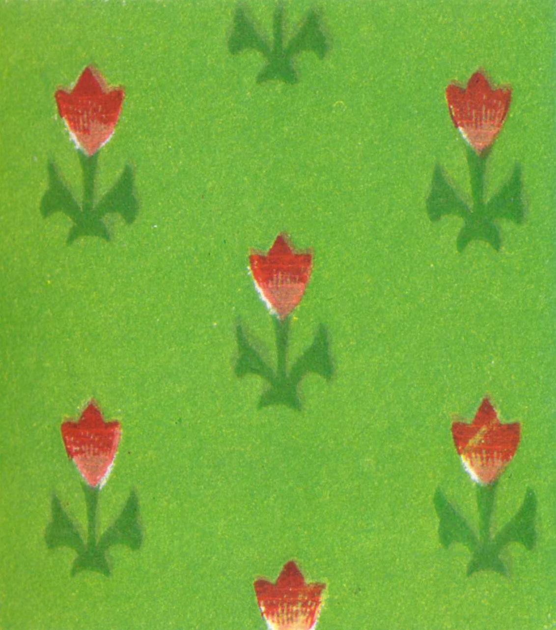 Example of wallpaper group type cm.